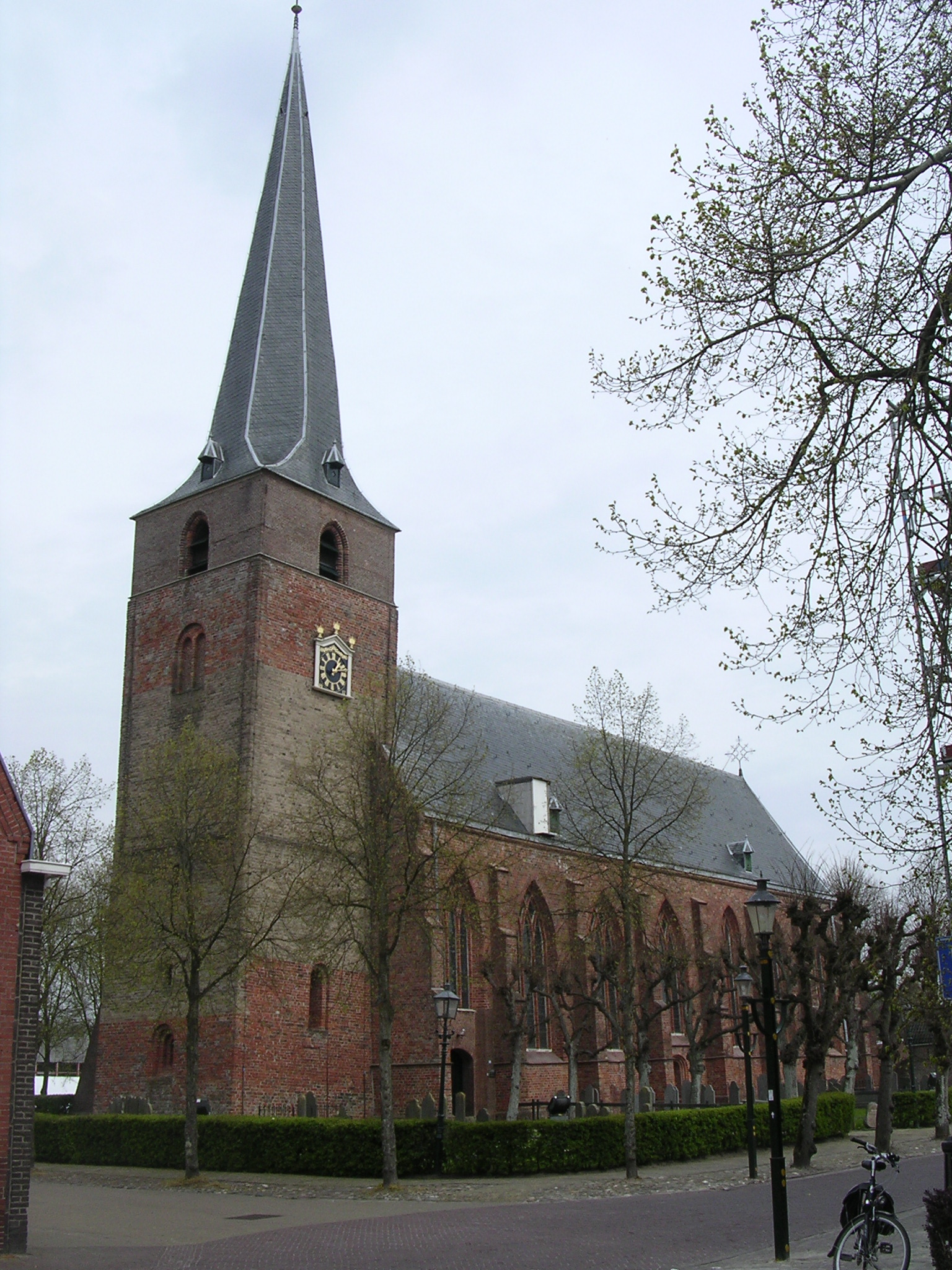 St Maartens church in Kollum